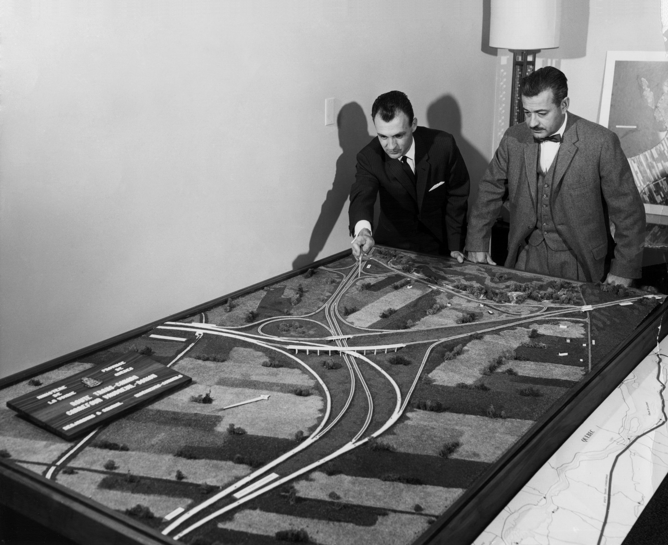 Dessau founder Paul-Aimé Sauriol and Jean-Claude Desjardinssometime between 1962-1964